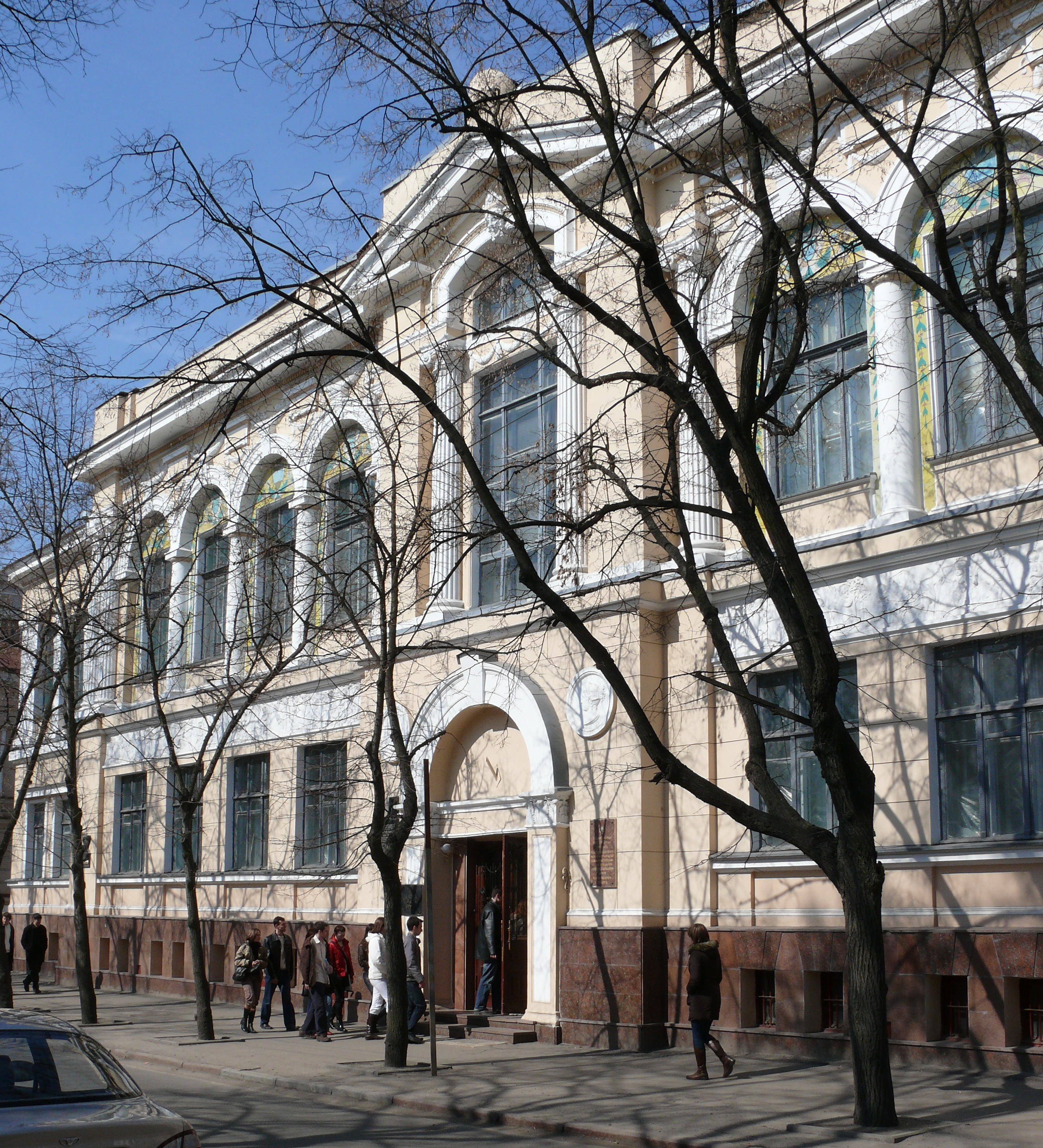 Kharkov art museum. 1912.